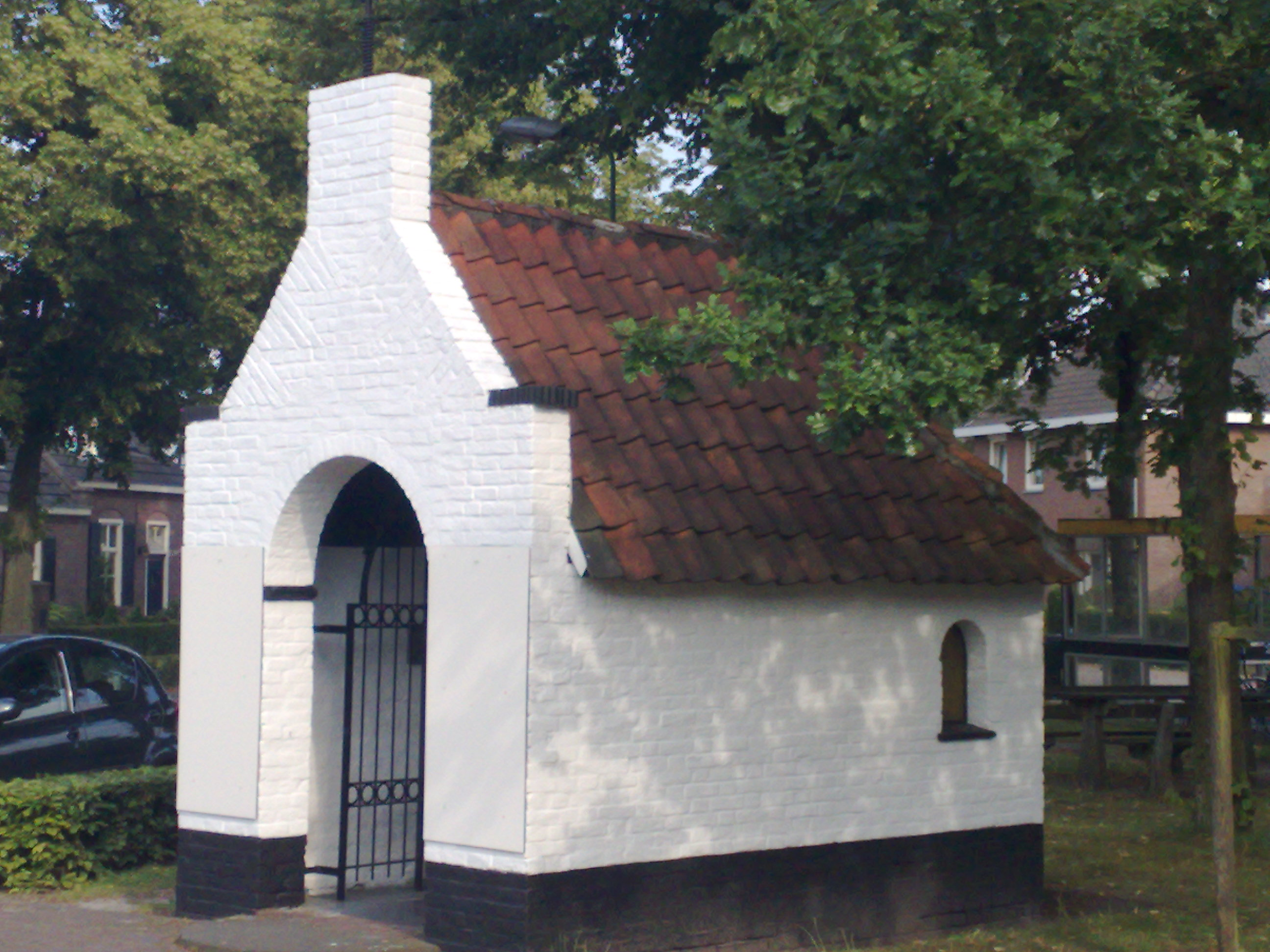 Marian chapel at Eersel, North Brabant, the Netherlands